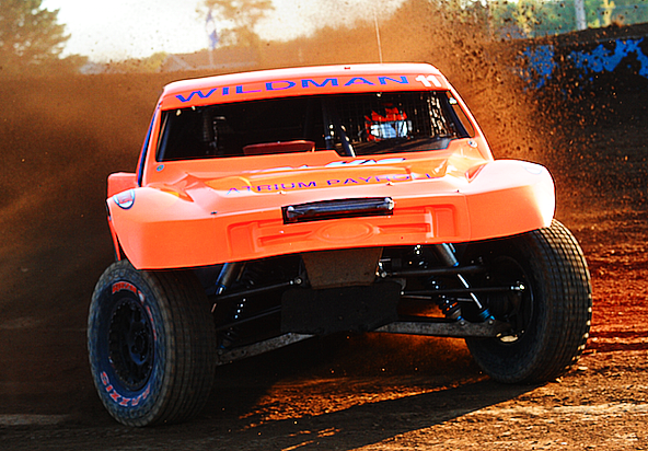 TORC PRO 4 driver Adrian Cenni